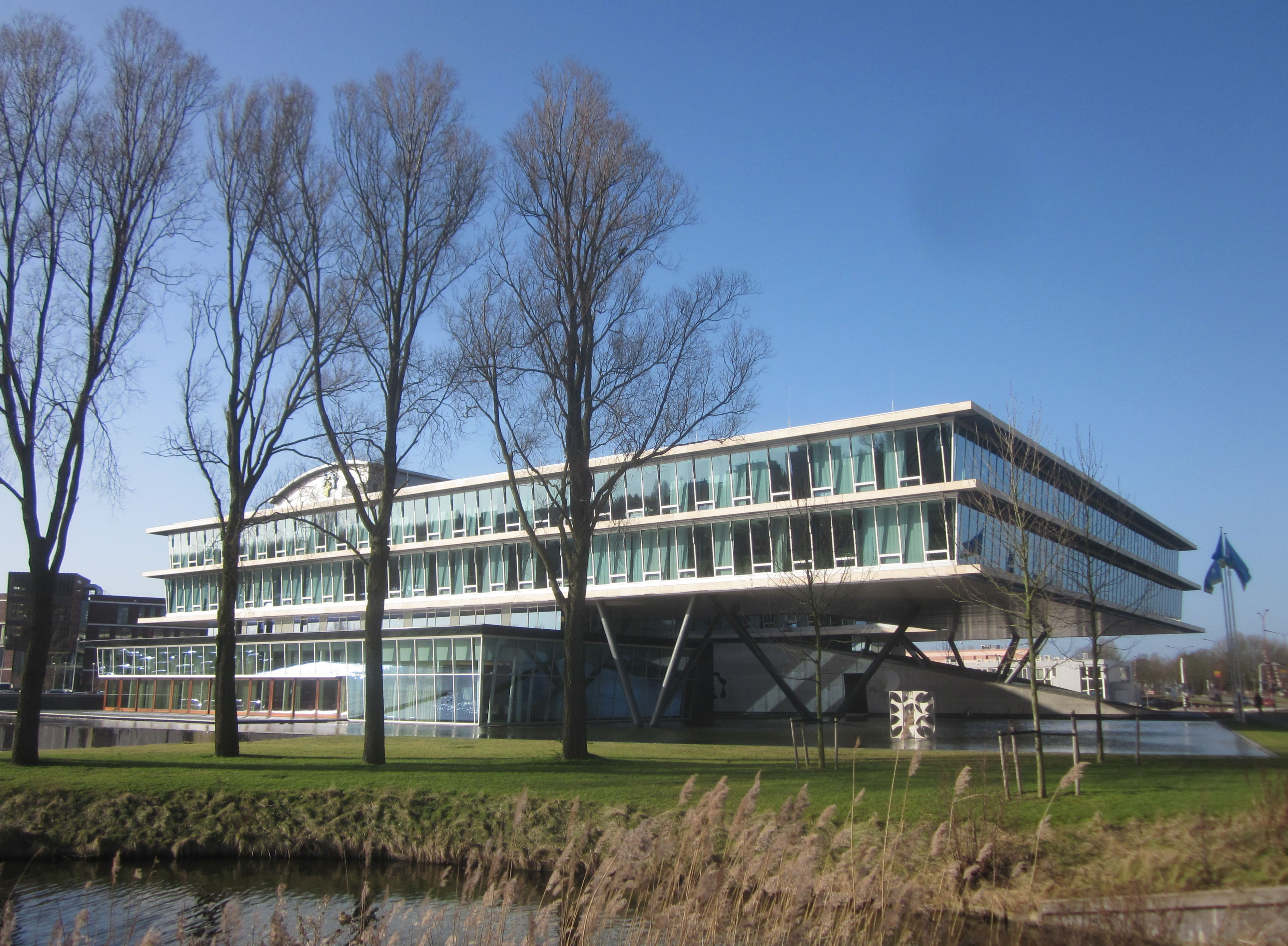 Officebuilding water board Hoogheemraadschap Hollands Noorderkwartier in Heerhugowaard, build in 2011 designed Rudy Uytenhaak.